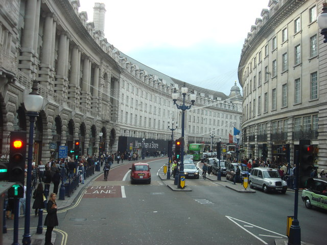 A4201 Regent Street